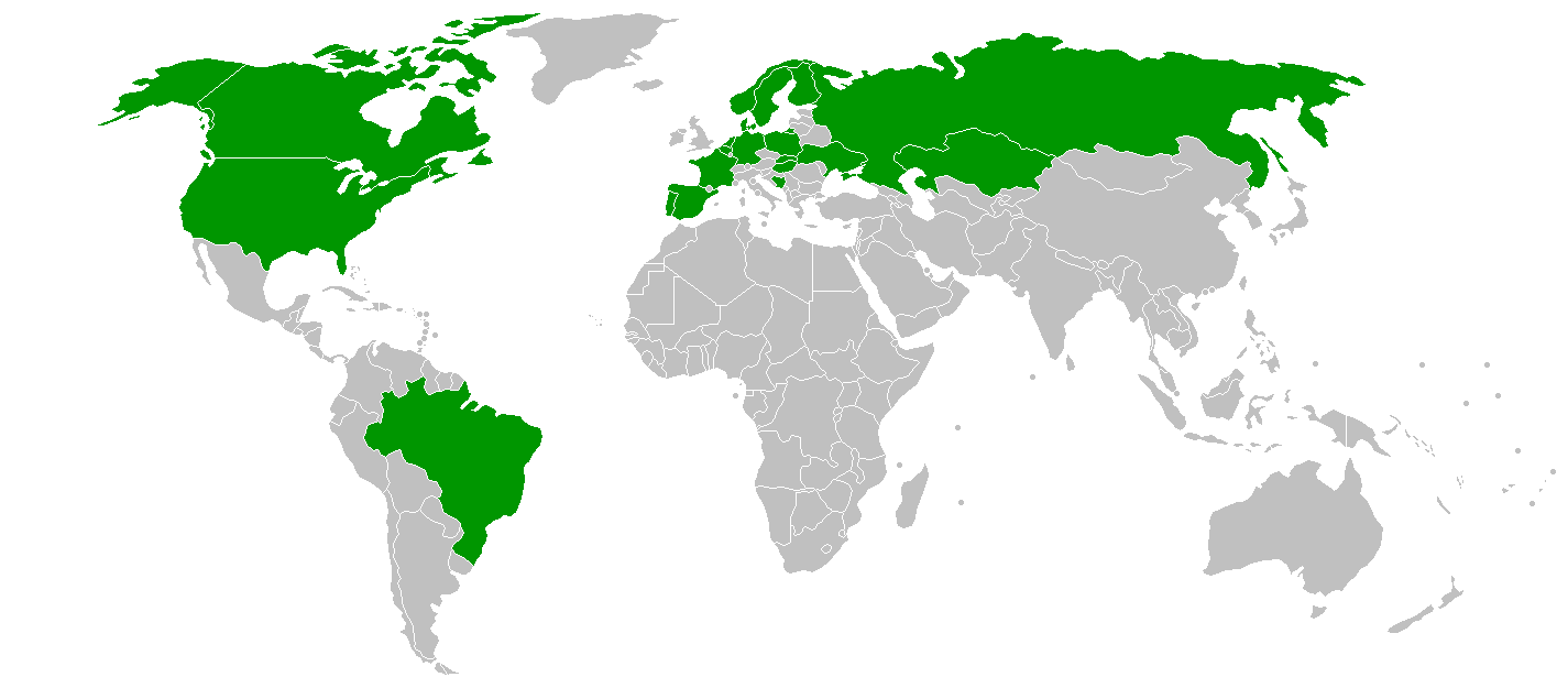 Nationalities of Eleague Major: Atlanta 2017 participants